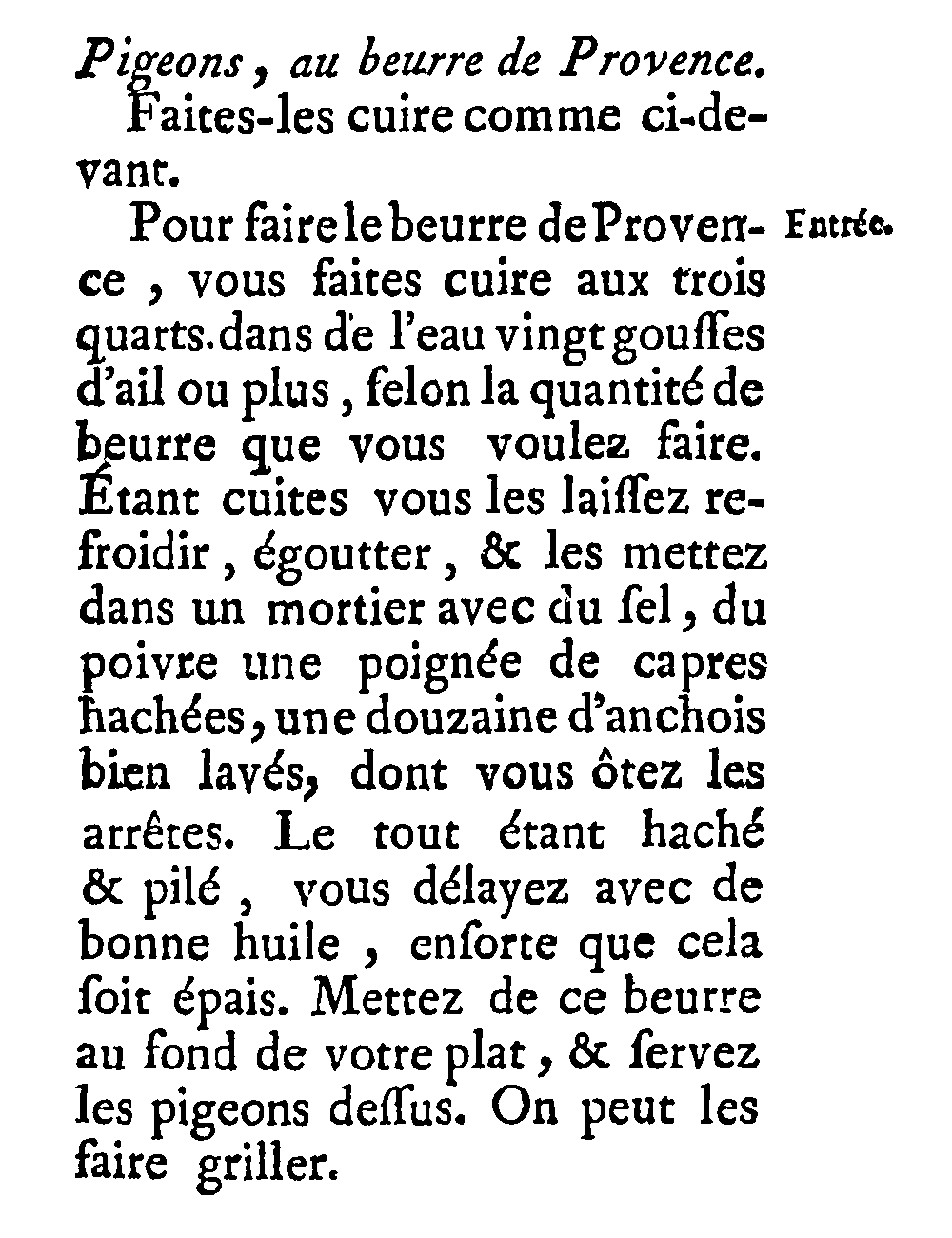 François Marin: recipe for garlic mayonnaise pigeons, from Les Dons de Comus, cookbook published in 1758, pages 229-230.